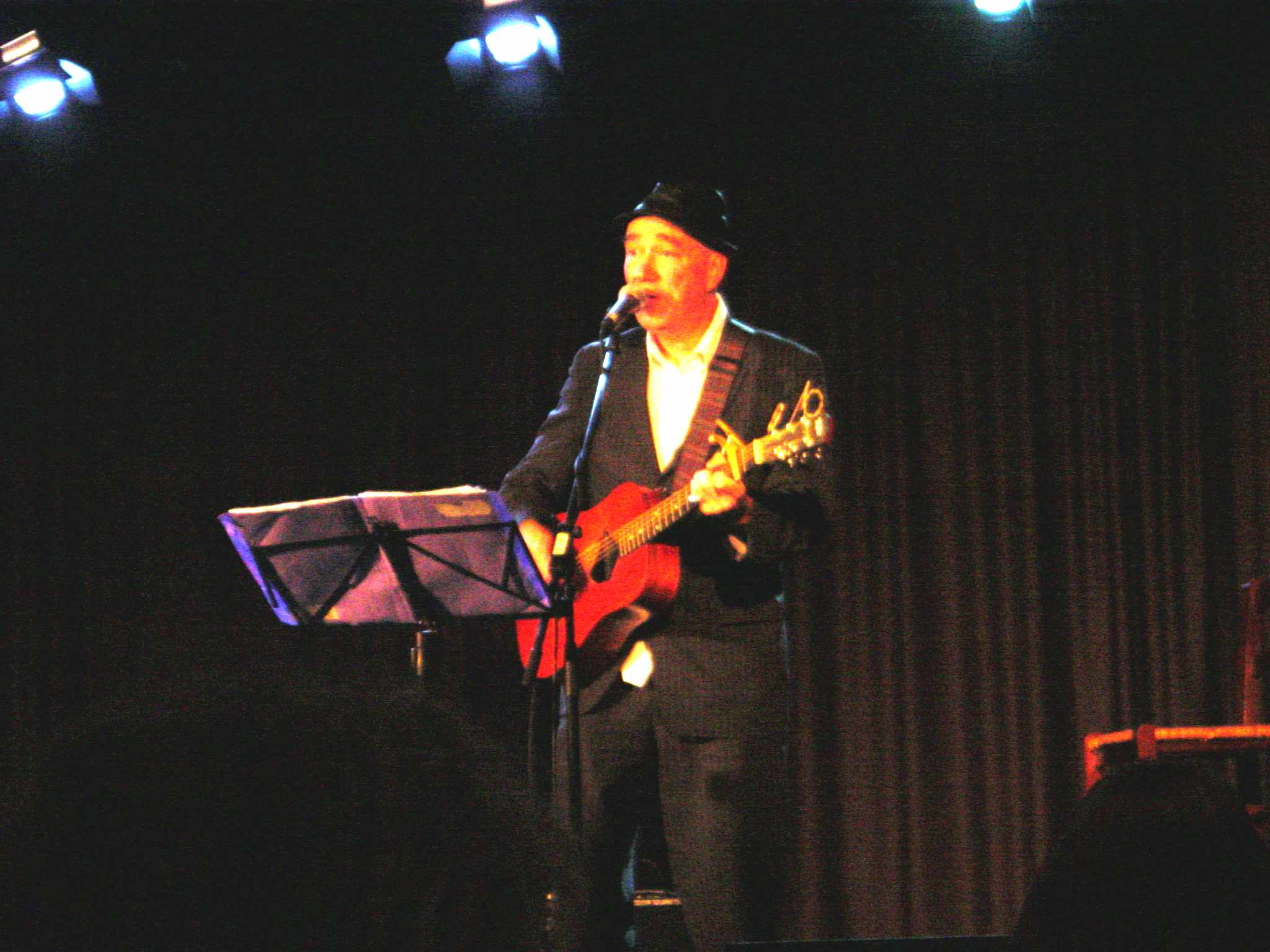 John Watts on stage